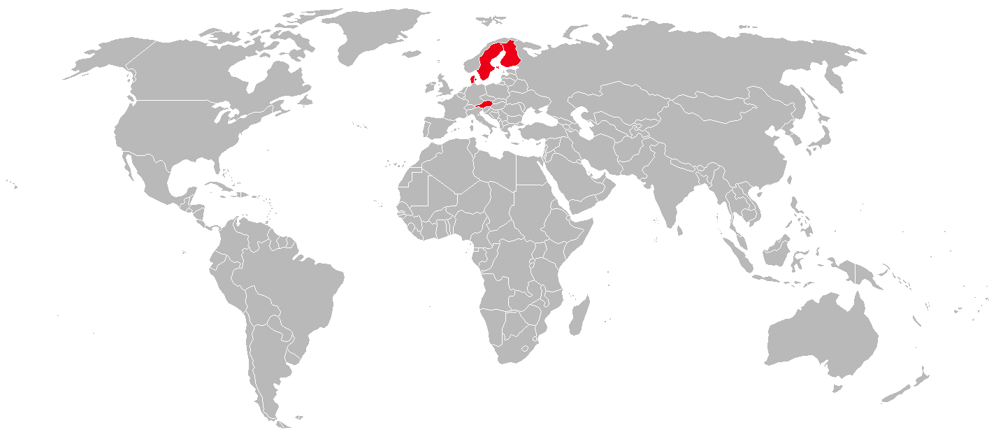 Saab 35 Draken Operators (former operators in red)